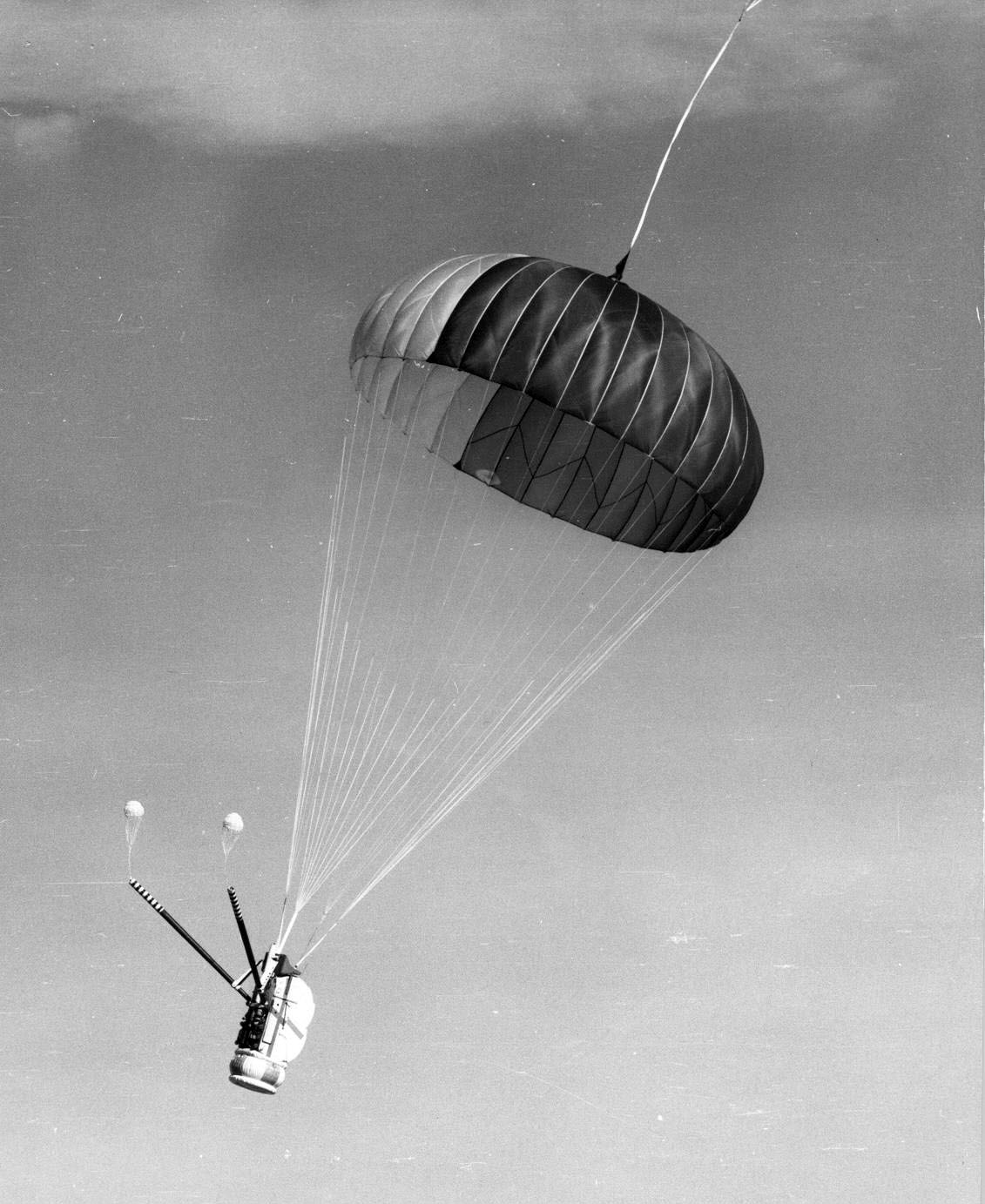 North American XB-70A Valkyrie escape capsule during a test